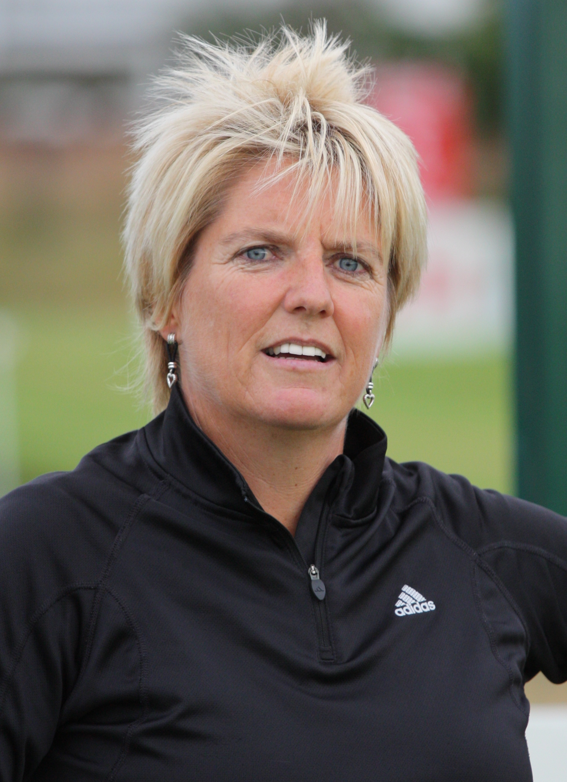 LYTHAM ST ANNES, UNITED KINGDOM - JULY 29: Kathryn Imrie of Scotland at the 18th tee during third practice round before 2009 Ricoh Women's British Open held at Royal Lytham & St Annes on July 29, 2009 in Lytham St Annes, England. (Photo by Wojciech Migda)